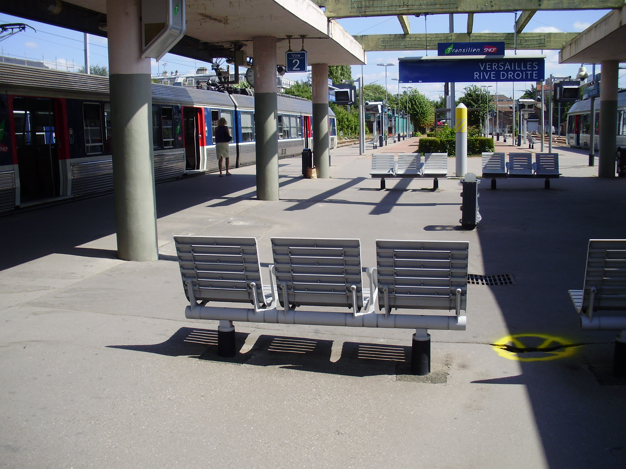 Versailles-Rive-Droite station, in Versailles, Yvelines, France (waiting area between the two principal tracks to Paris-Saint-Lazare)